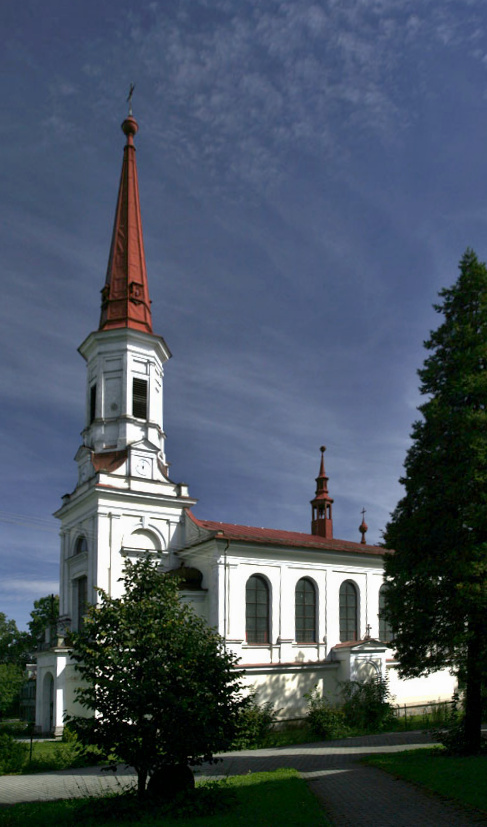 Saint Hedwig Church in Doubrava (Dąbrowa), Czech Republic